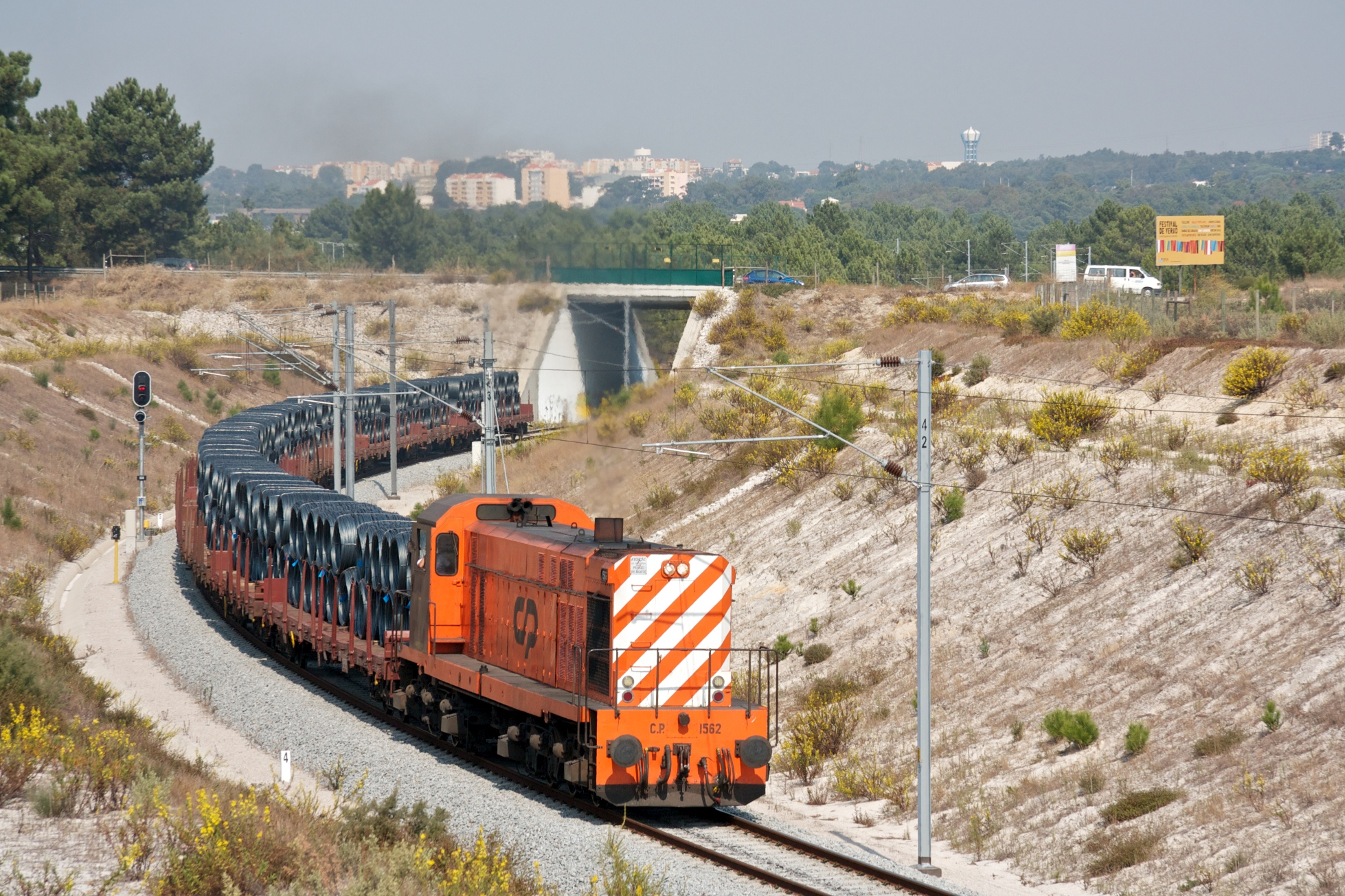 CP 1562 with a steel wire train to Setúbal.